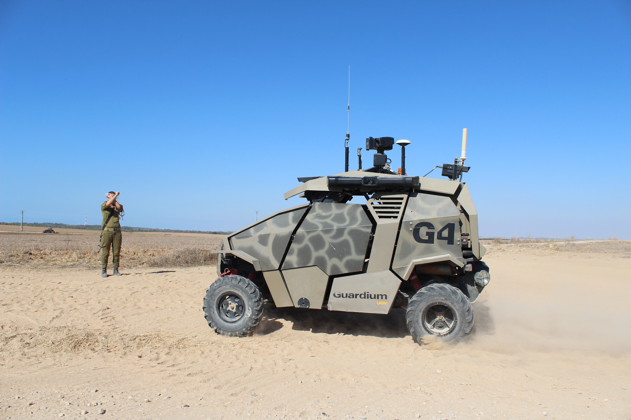 This Israeli made unmanned ground vehicle is one of Israel's most important weapons on its border with Gaza. Equipped with 360 degree cameras, the Guardium is conserving IDF soldier's lives. Photo: Cpl. Zev Marmorstein, IDF Spokesperson's Unit. For more from the IDF